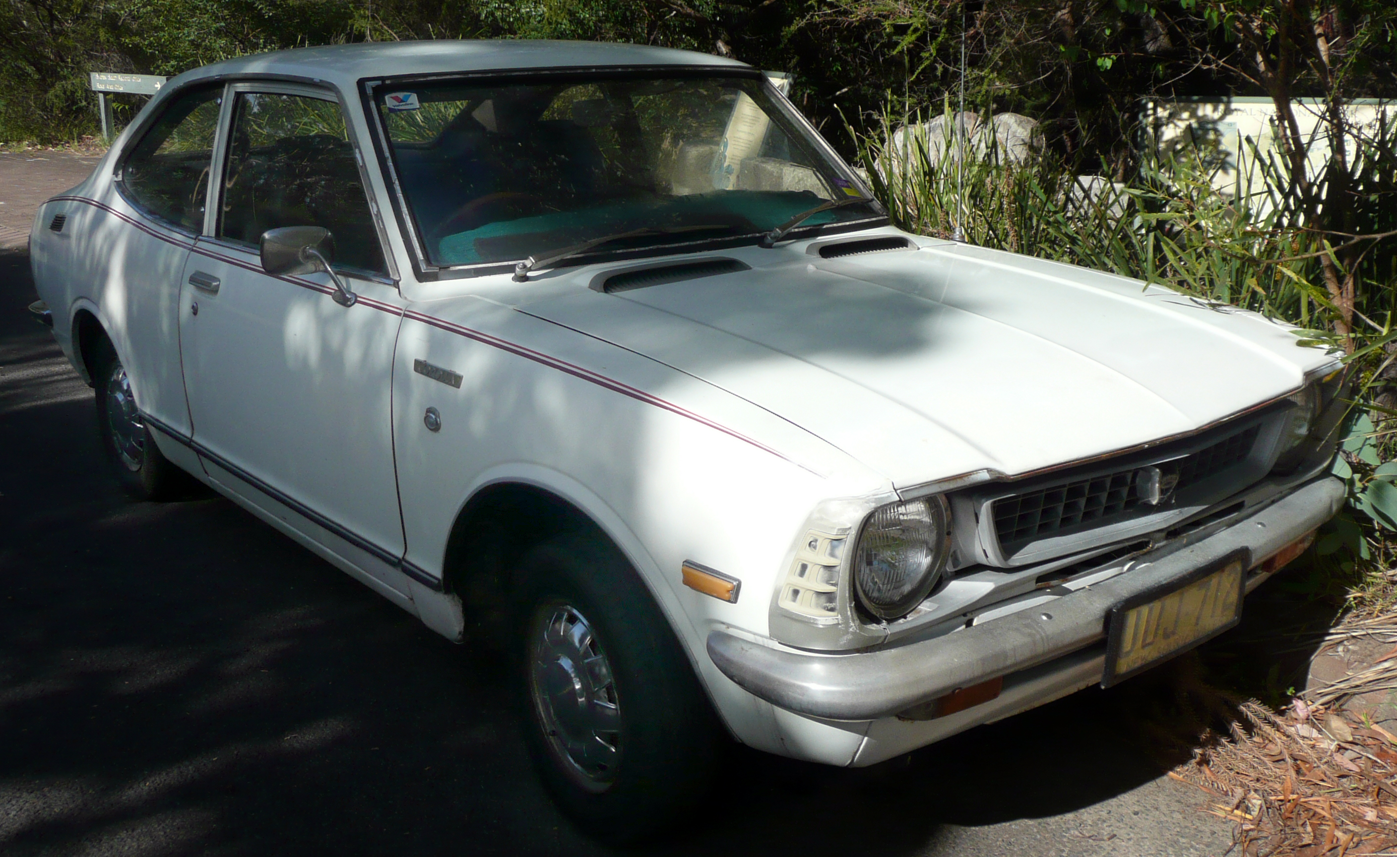 1973 Toyota Corolla (KE25-D) Deluxe coupe. Photographed in Audley, New South Wales, Australia.